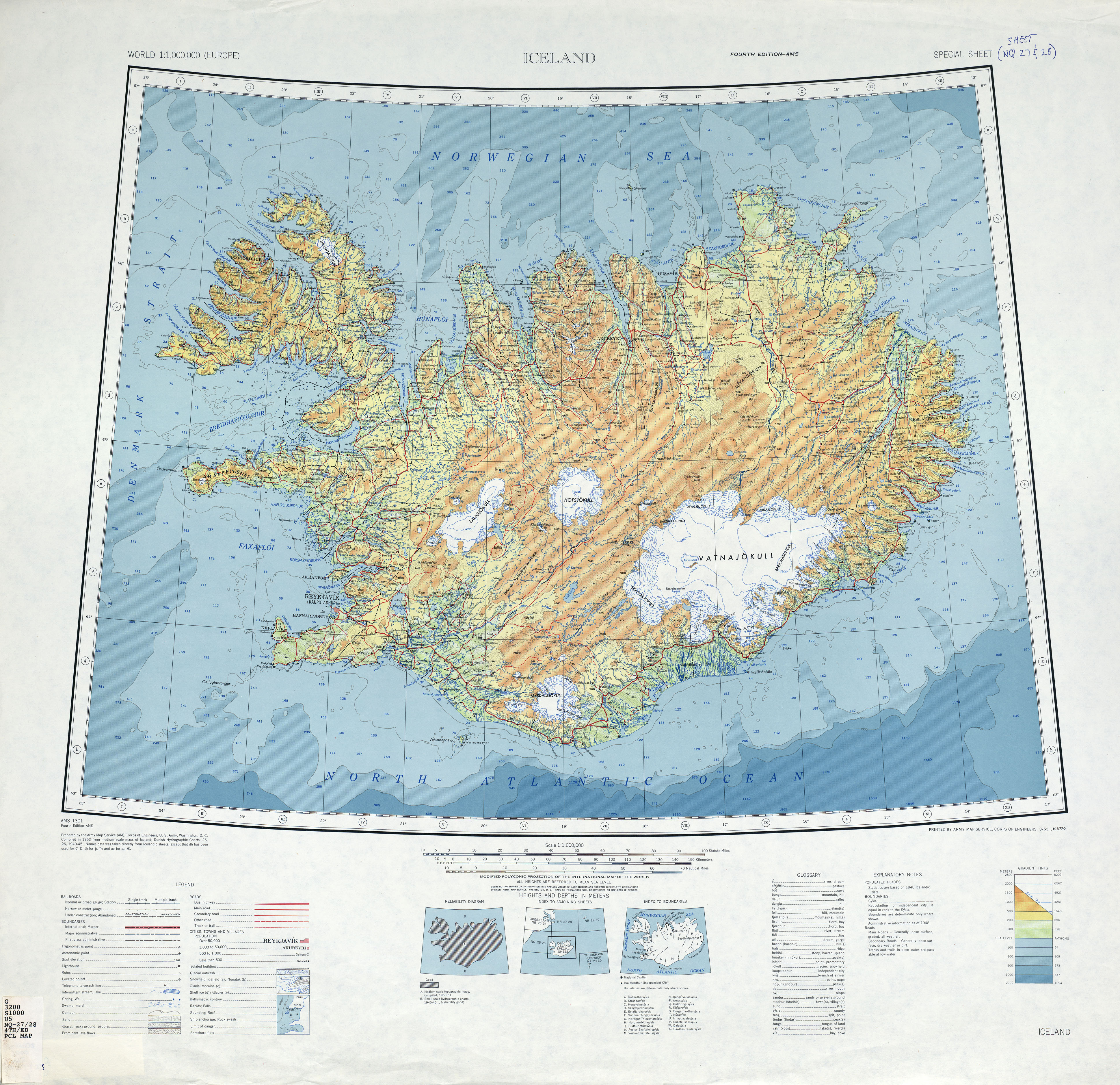 Iceland, topographic map (special mosaic sheet of International Map of the World 1:1,000,000